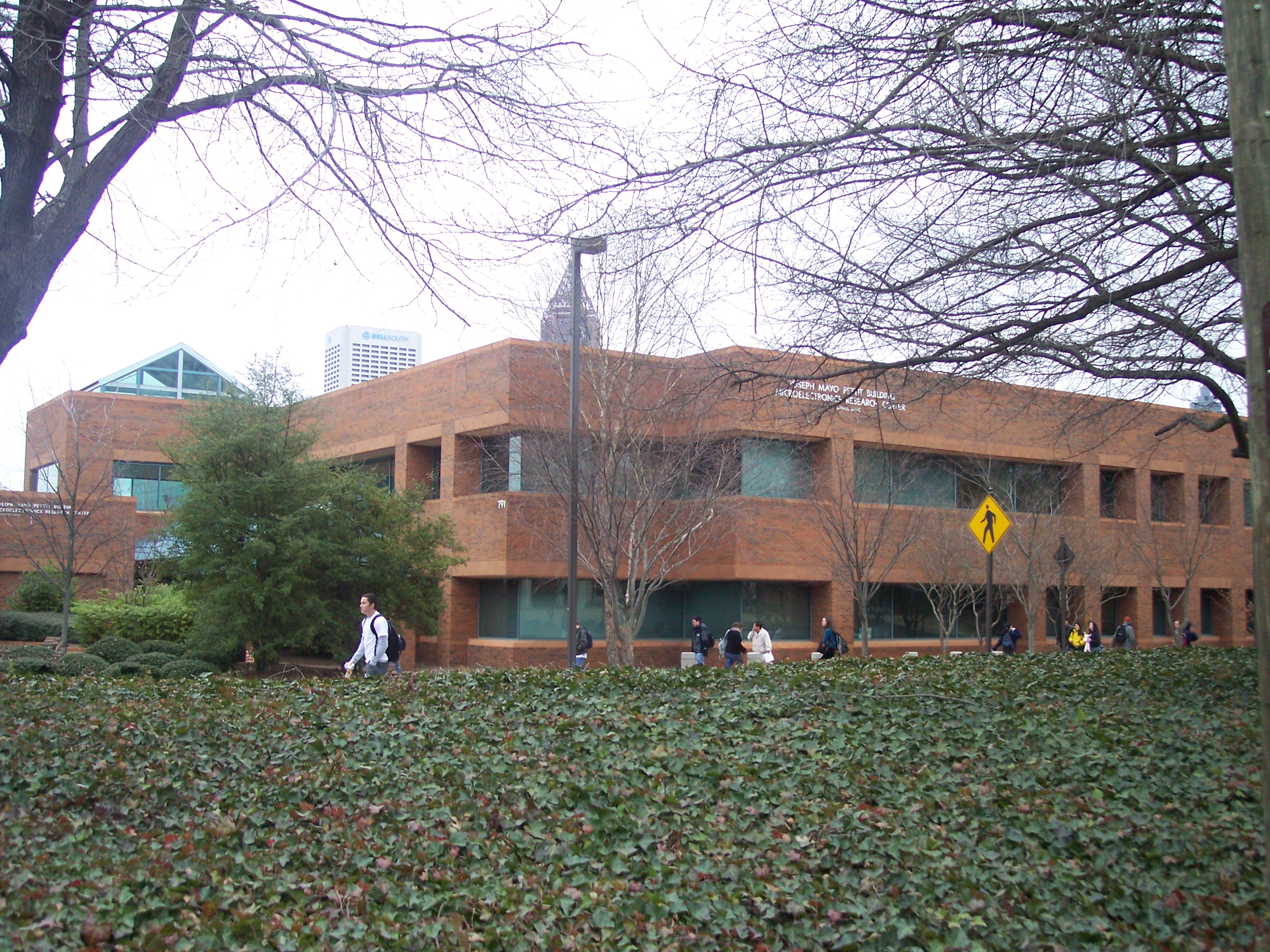 Microelectronics Research Center, Georgia Tech, Atlanta, GA, USA.Microelectronics Research Center